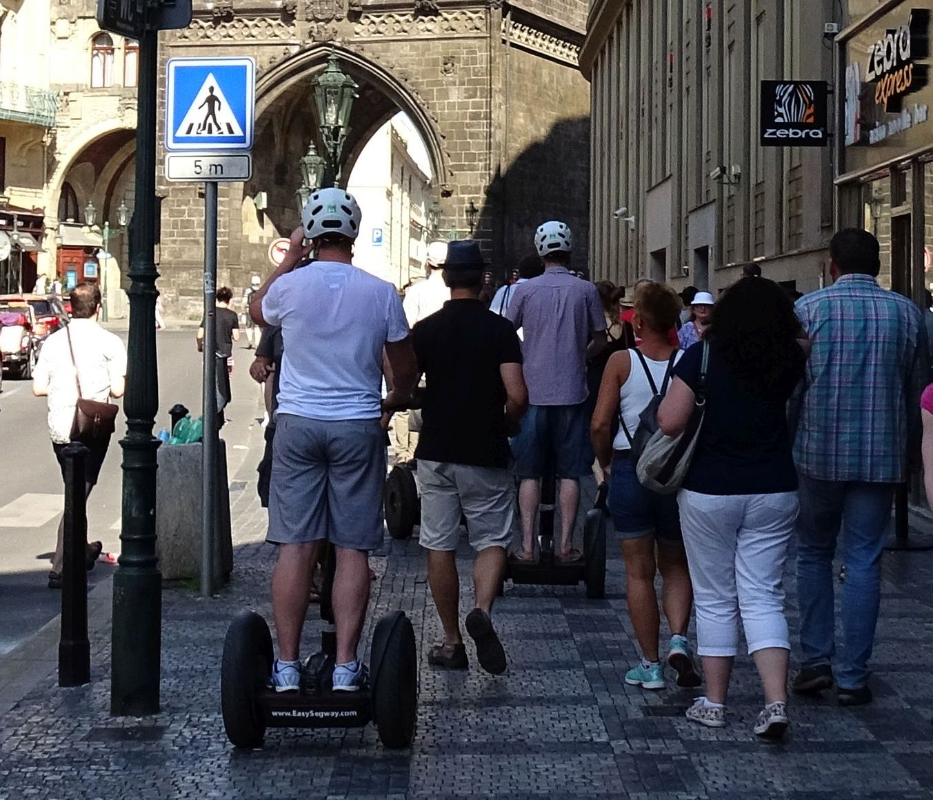 Prague-Old Town, Czech Republic. Celetná street, Powder Tower.